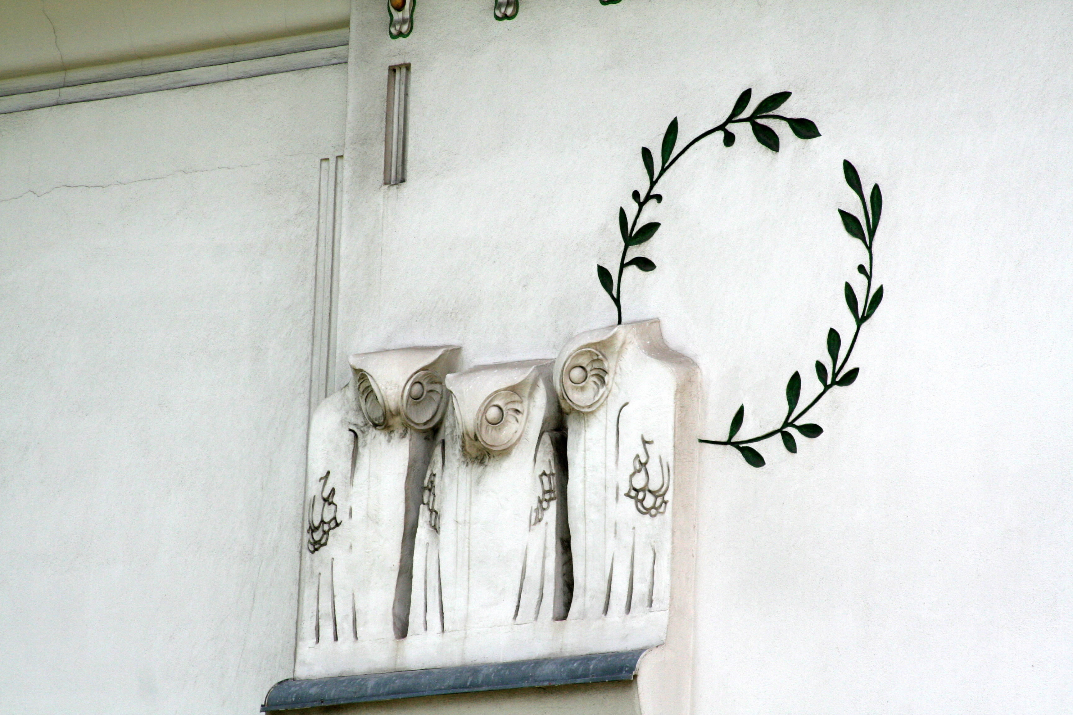 Austria, Vienna, Secession hall